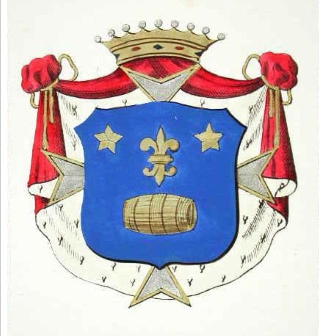 Stemma araldico